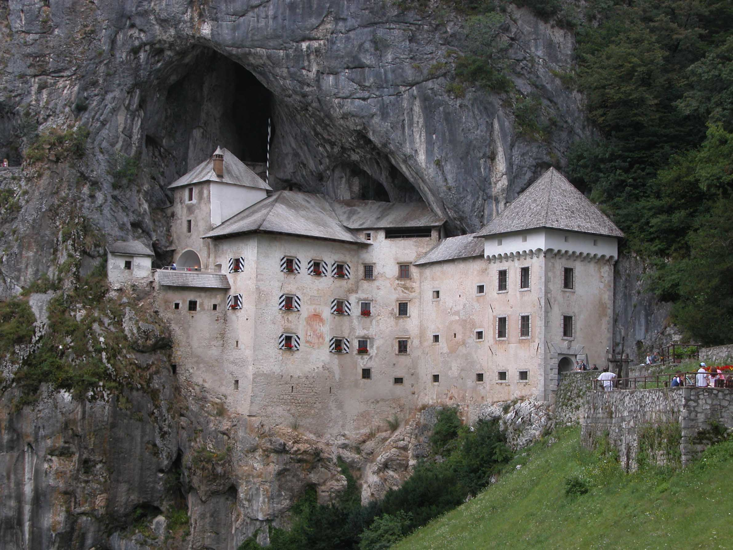 Predjama castle, Slovenia.